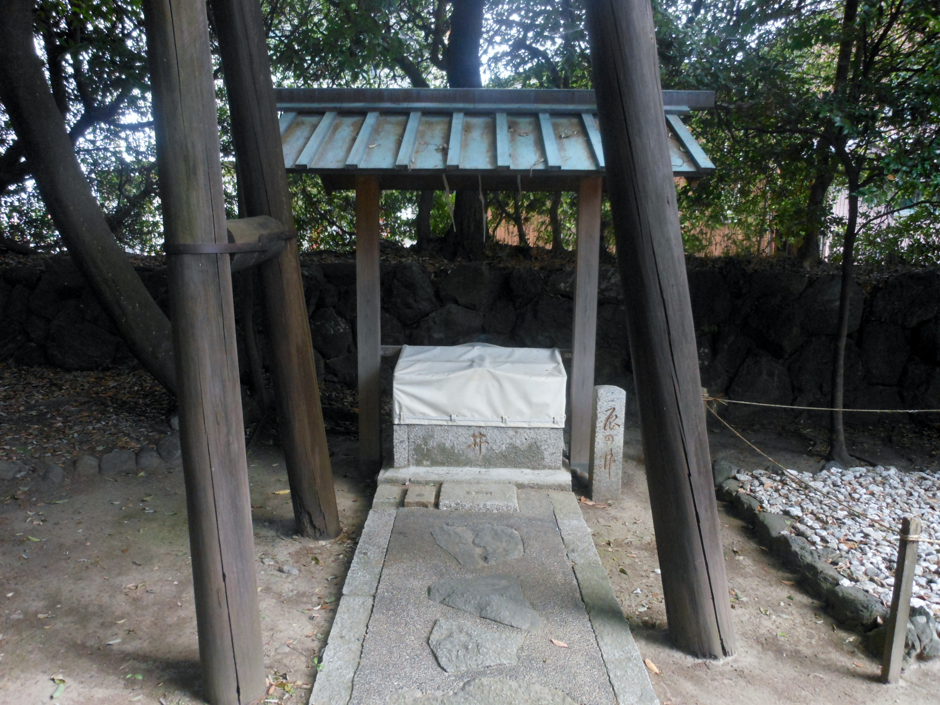 This is the Well of Tatsu or Tatsu-no-i , which is in Mike shrine, Ise, Mie, Japan.